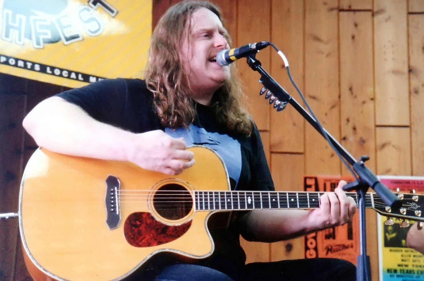 Taken at Peaches Records, Sunrise Blvd., Fort Lauderdale, FL. Author: Carl Lender Warren Haynes of the Allman Brothers Band